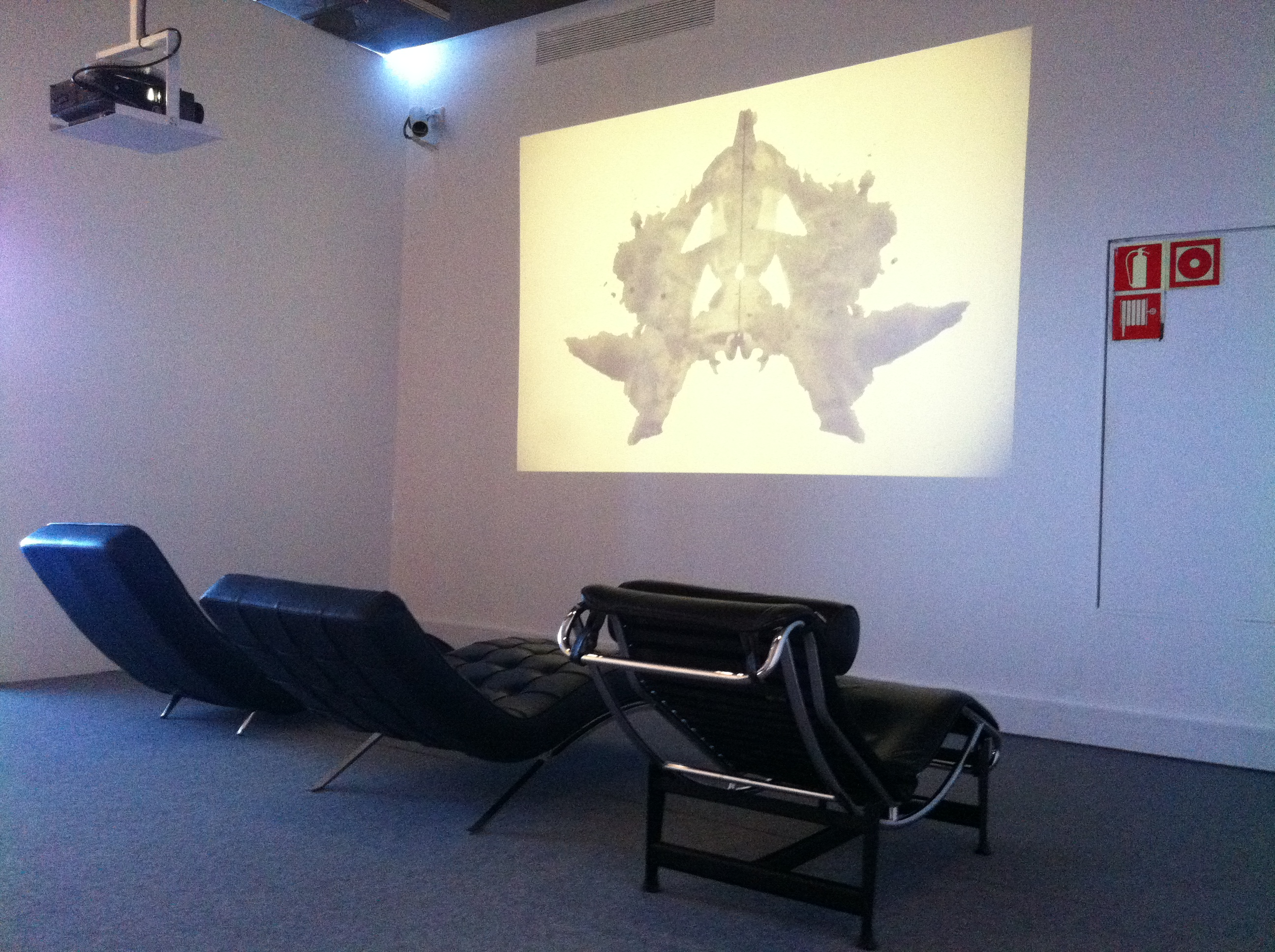 La Trieste de Magris. Exhibit about the Trieste of Claudio Magris, shown at CCCB during 2011